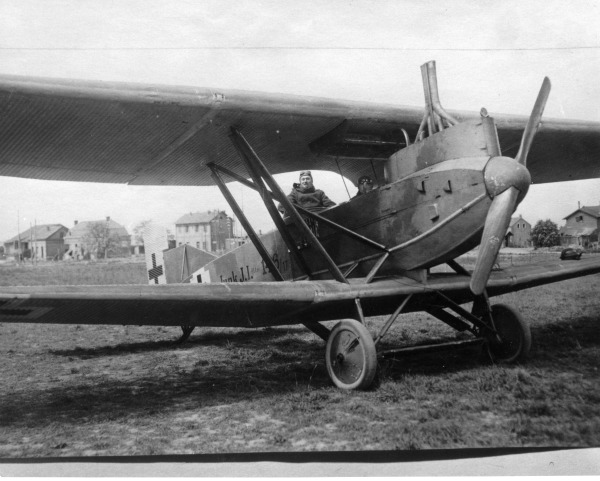 PictionID:43639942 - Catalog:16_004760 - Title: Junkers J.I (company J 4), nicknamed the BlecheselFilename:16_004760.TIF - - - - - Image from the Ray Wagner Collection. Ray Wagner was Archivist at the San Diego Air and Space Museum for several years and is an author of several books on aviation --- ---Please Tag these images so that the information can be permanently stored with the digital file.---Repository: San Diego Air and Space Museum